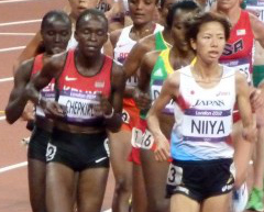 Eventuall winner Tirunesh Dibaba of Ethiopia lying second. Olympic Stadium, Friday 3 August, London Olympic Games. Joyce Chepkirui, Hitomi Niiya